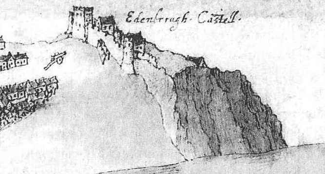 Contemporary sketch of Edinburgh Castle from the north.